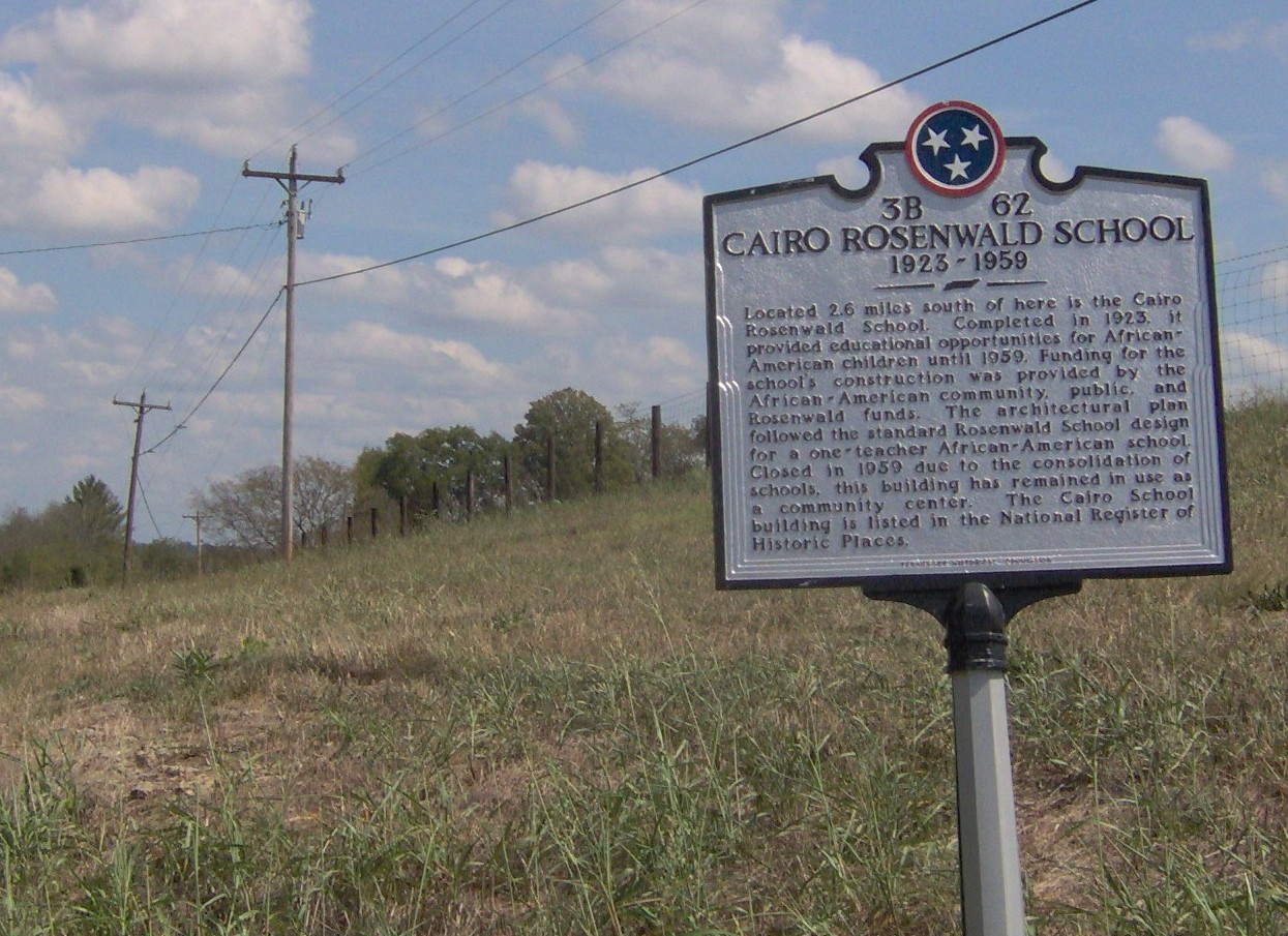 Tennessee Historical Commission marker along TN-25 in Sumner County, Tennessee, in the southeastern United States. The sign recalls the Cairo Rosenwald School.